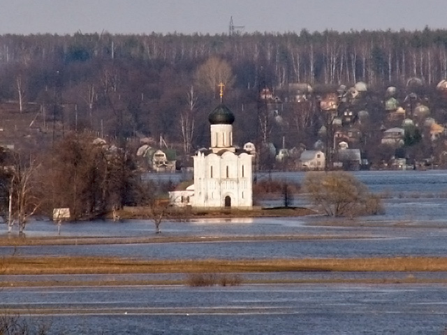 Bogoljubovo. Church of the Intercession on the Nerl.